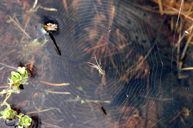 Tetragnatha striata web, from Commanster, Belgian High Ardennes .